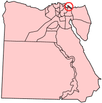 Map of Egypt showing Bur Sa'id (Port Said) governorate. Made by User:Golbez based on PD maps.